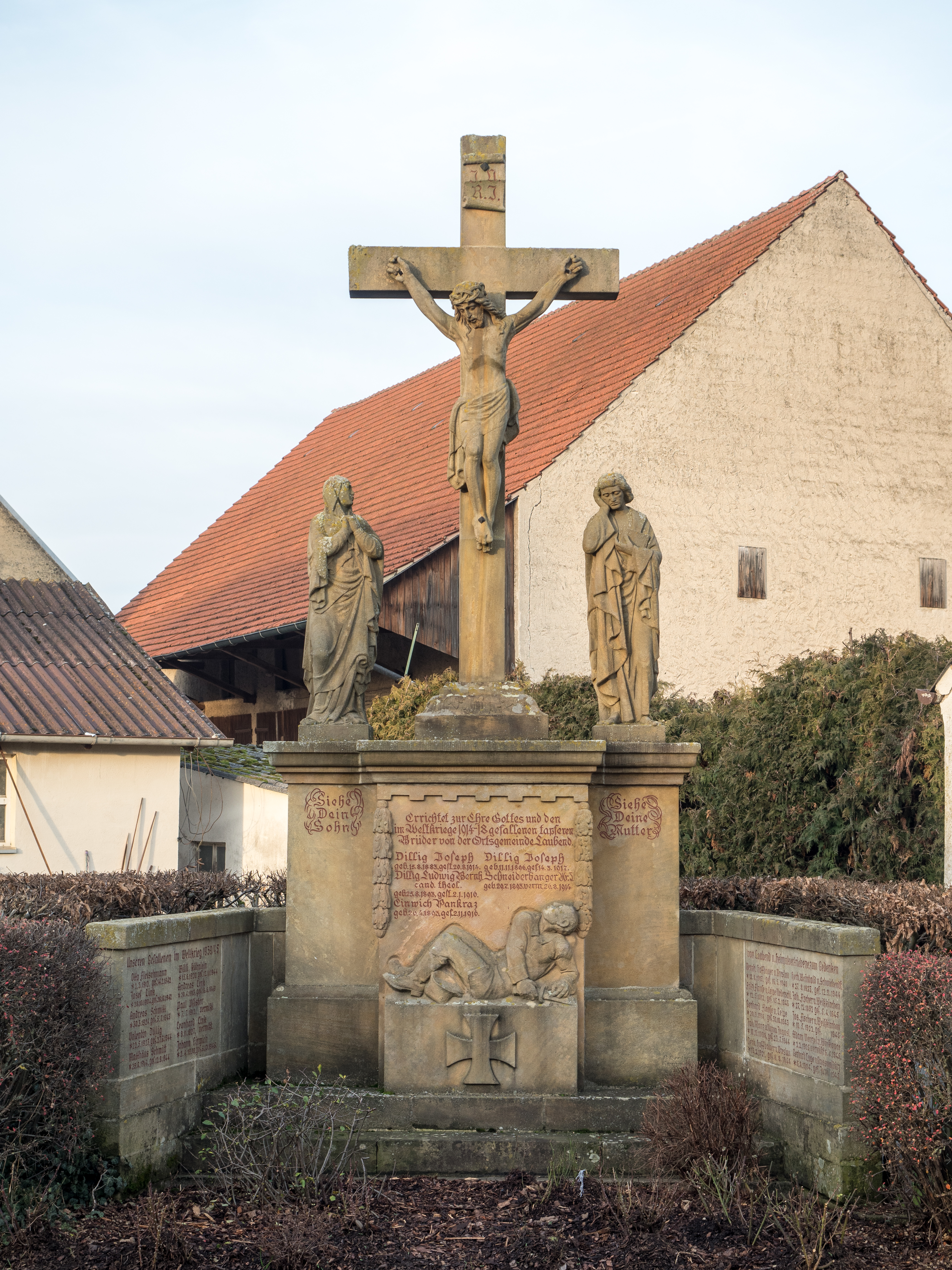 War memorial in Merkendorf